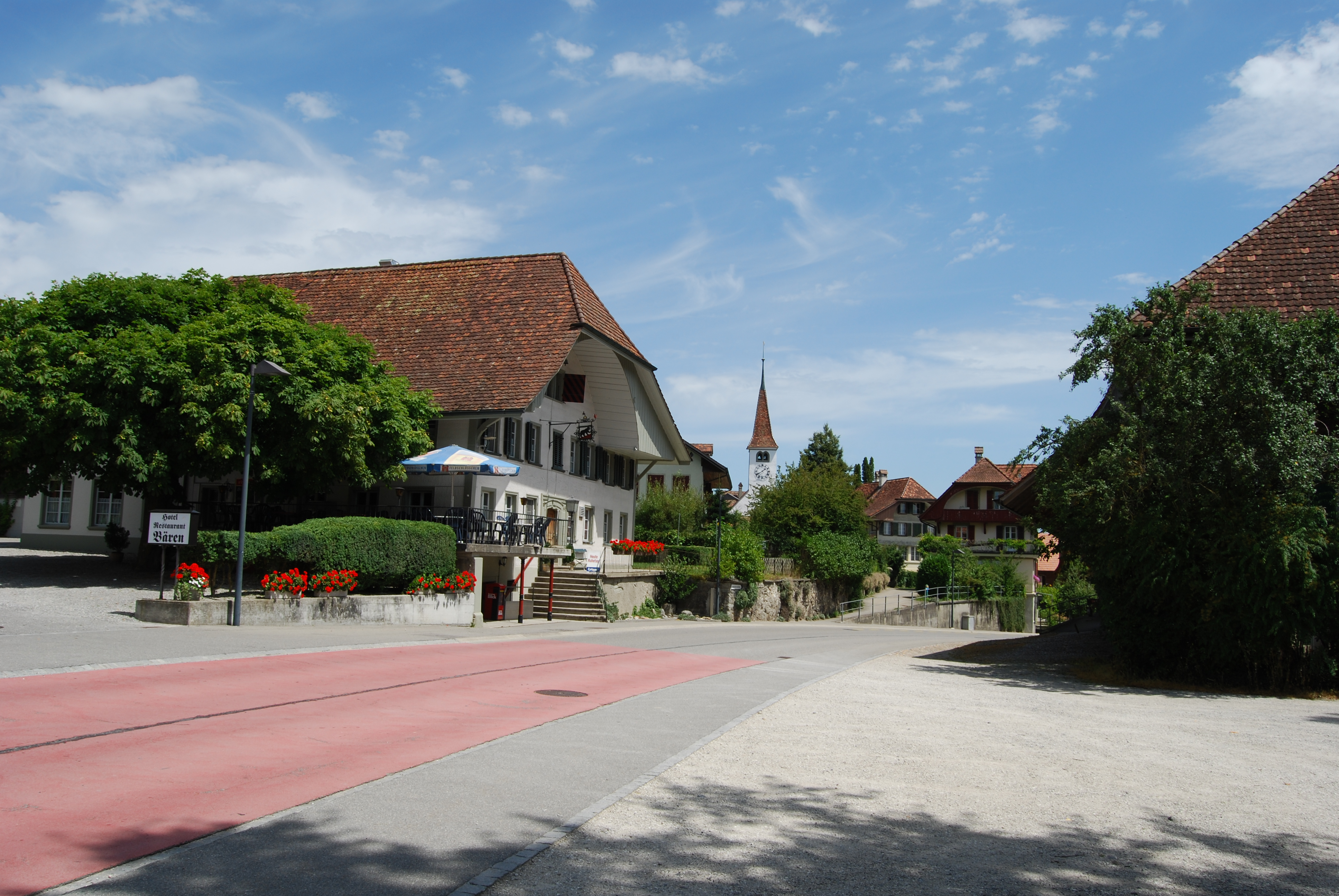 Frauenkappelen, canton of Bern, SwitzerlandEsperanto: Frauenkappelen, Kantono Berno, Svislando